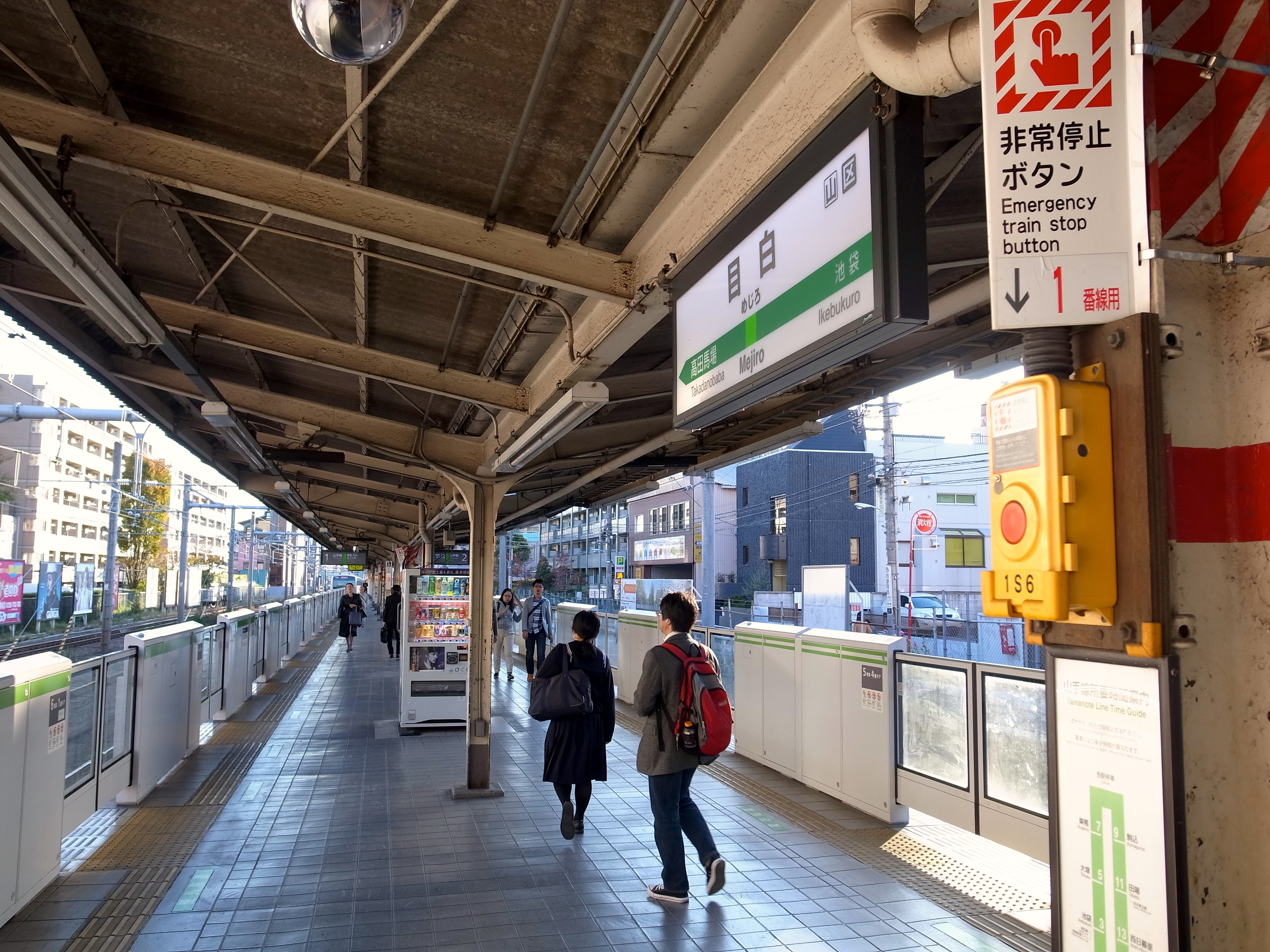 Meijiro Station platforms